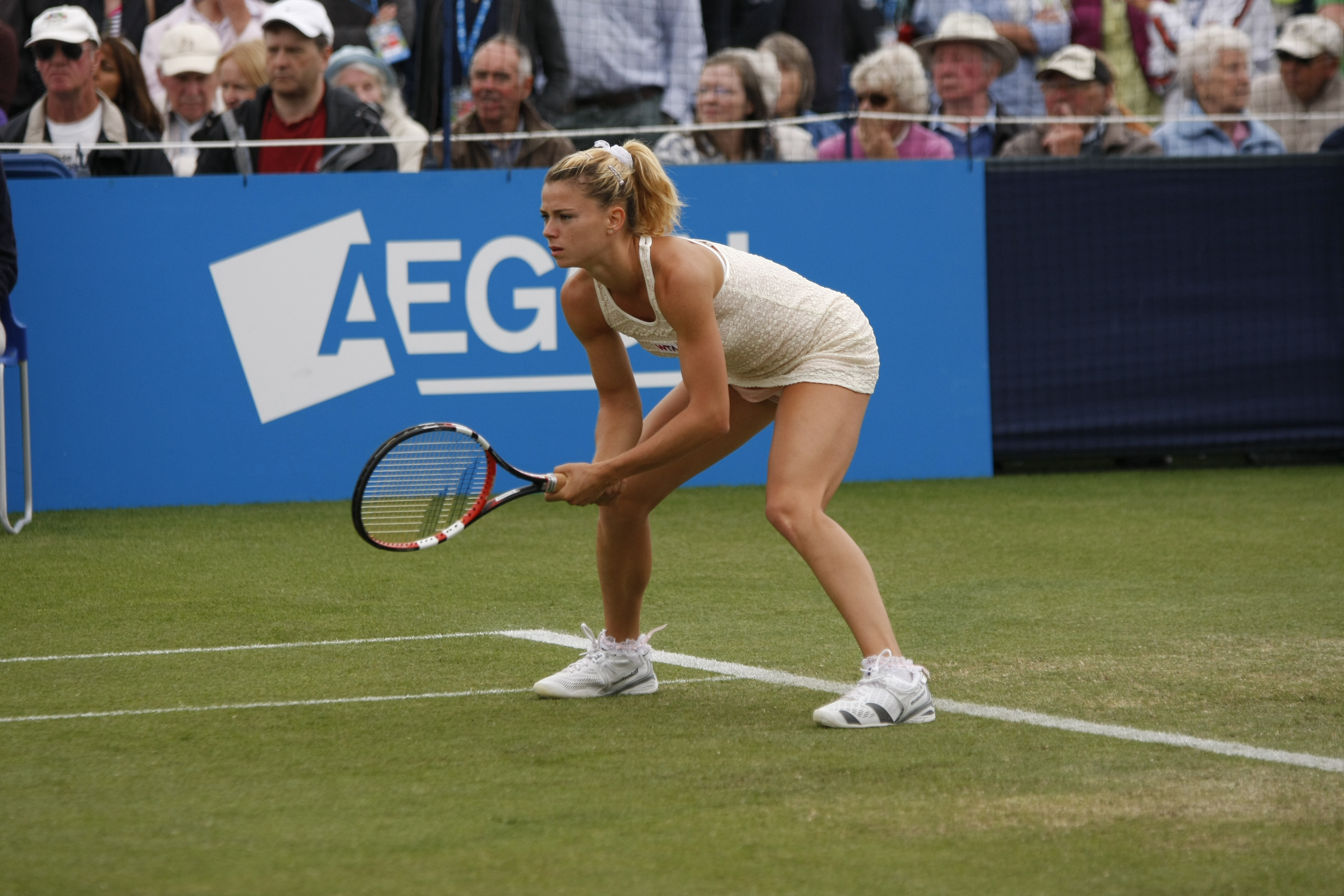 Giorgi at the Aegon International, June 2014